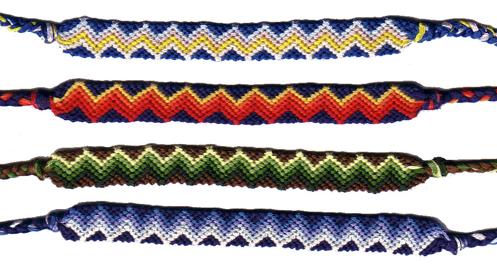 Friendship bracelets - The Four Classical Elements (from top to bottom: Air, fire, earth, water)